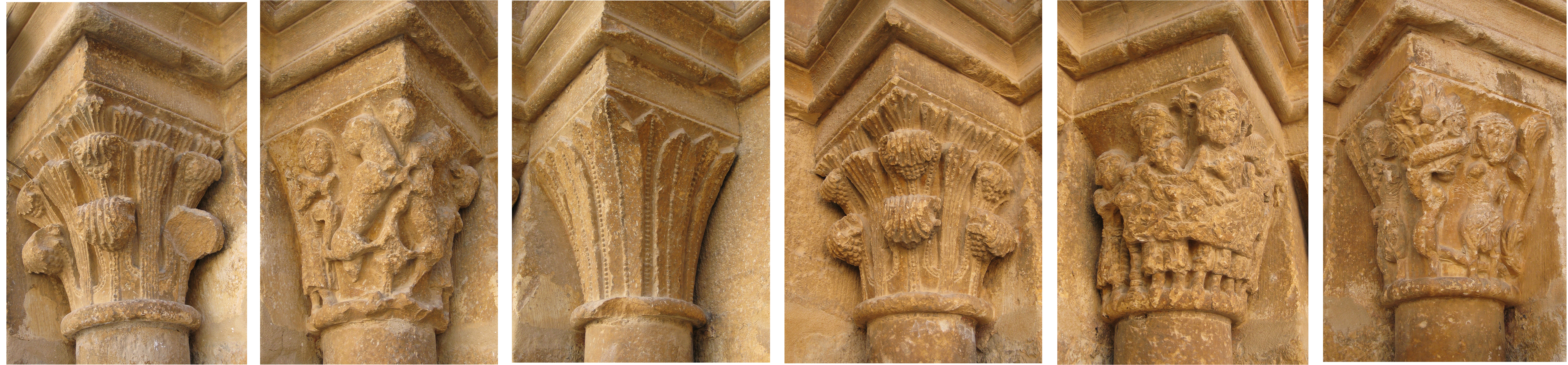 Photomontage of the Romanesque capitals of the Sant Mateus's church, Castelló (Spain)